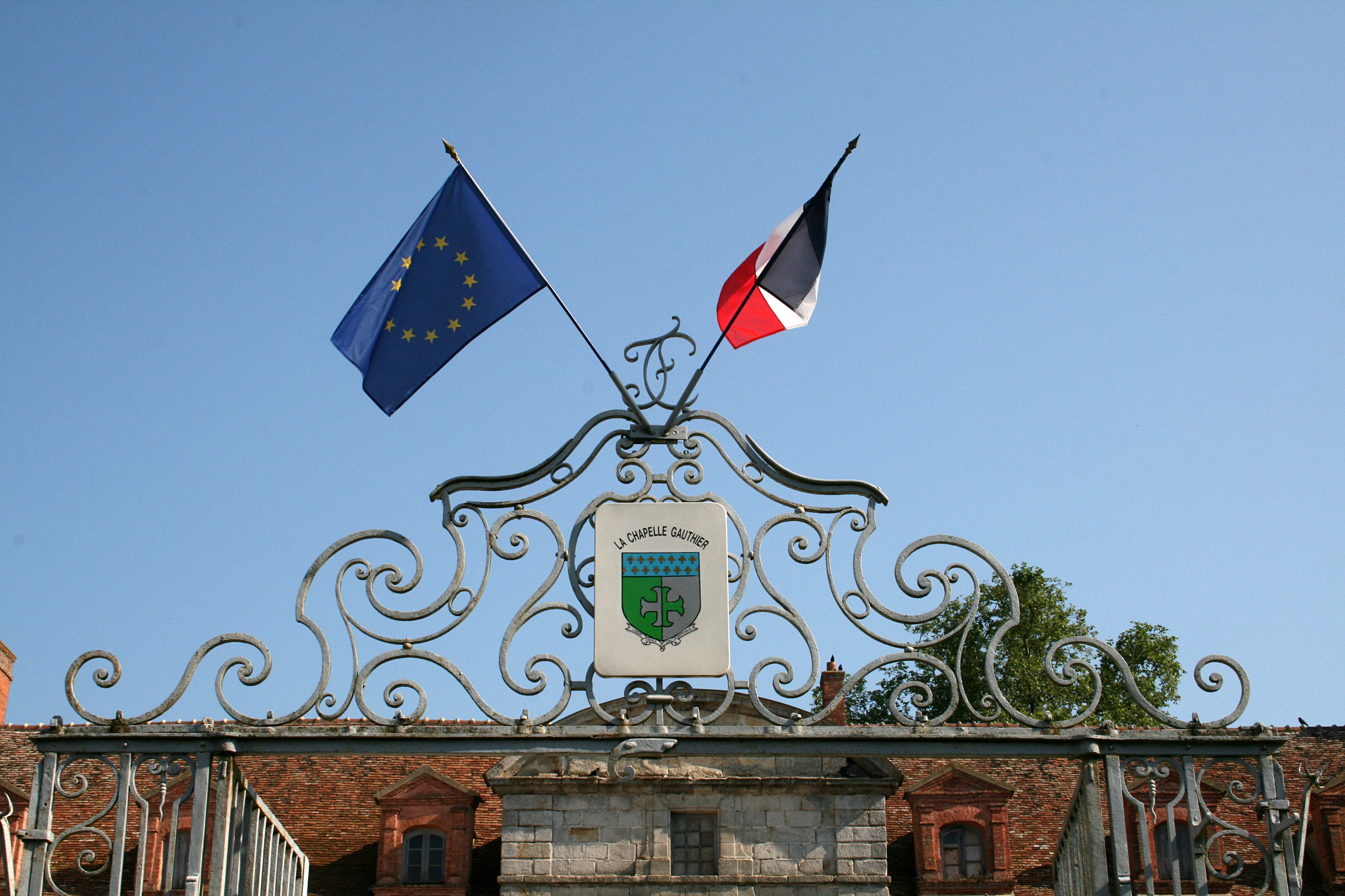 La Chapelle-Gauthier ( Seine-et-Marne]), top of the wrought iron gate of the former castle decorated with the coat of arms of the town and bearing the European and French flags.